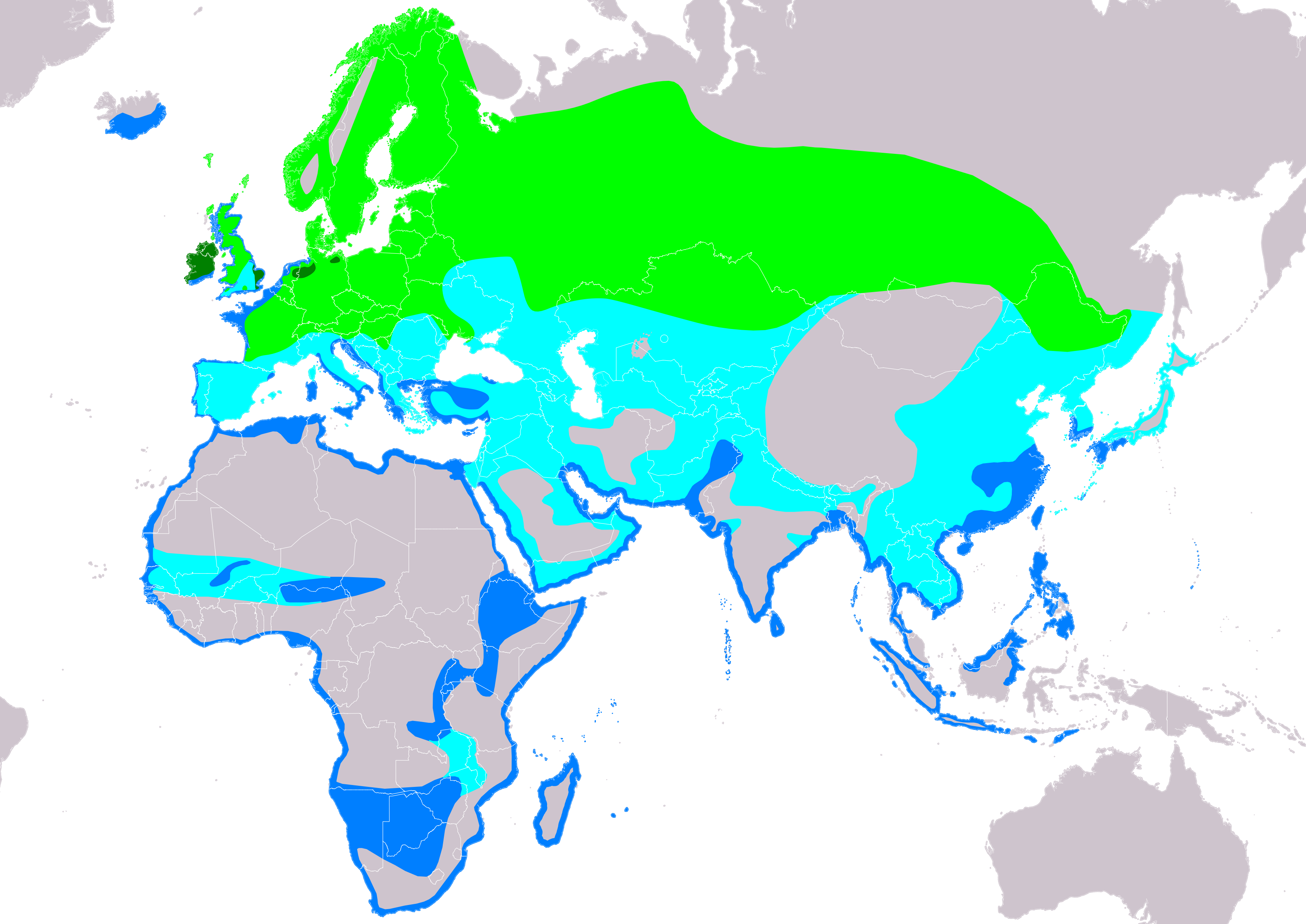 Distribution map of Eurasian Curlew (Numenius arquata) according to IUCN version 2019.3; key: Legend: Extant, breeding (#00FF00), Extant, resident (#008000), Extant, passage (#00FFFF), Extant, non-breeding (#007FFF)